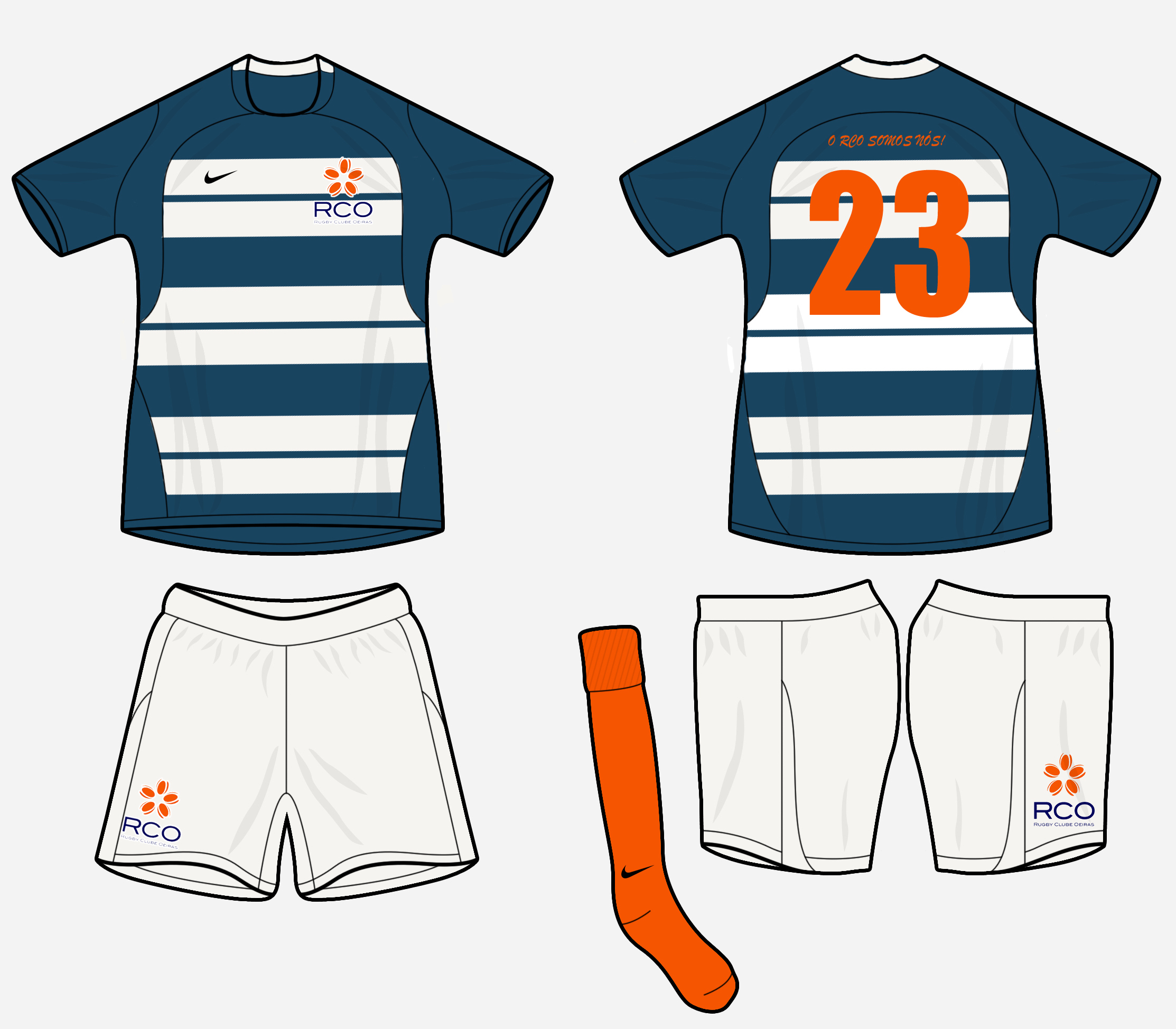 Official Playing Jersey for Rugby Clube de Oeiras Years 2011 to present